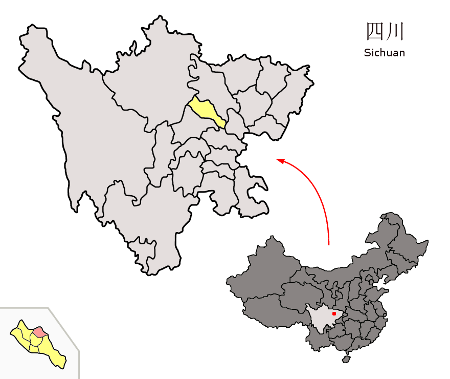 Location of Luojiang County (pink) and Deyang Prefecture (yellow) within Sichuan province of China Map drawn in october 2007 using various sources, mainly : Sichuan province administrative regions GIS data: 1:1M, County level, 1990 Sichuan Counties map from